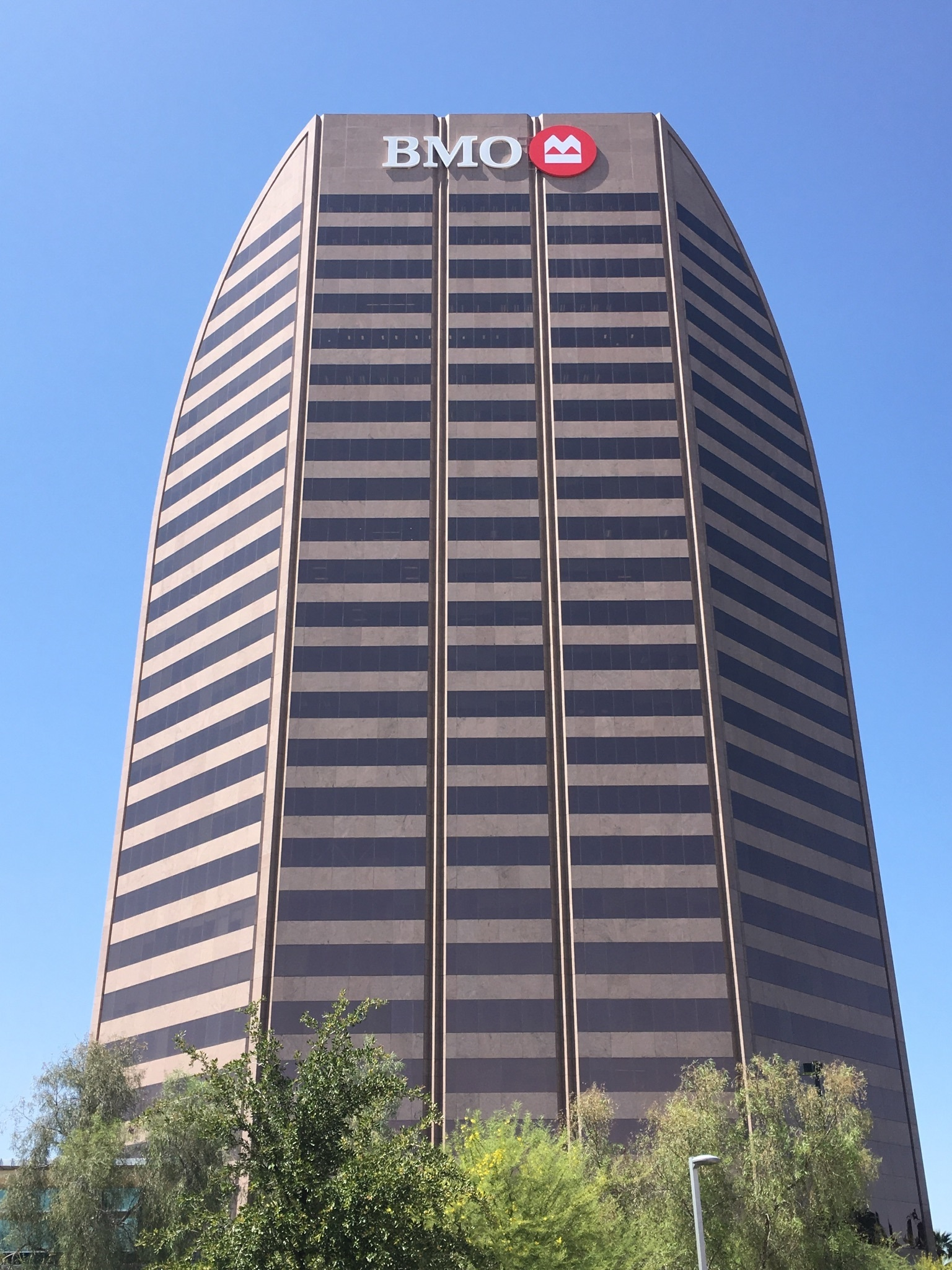 BMO Tower, topped by the BMO logo of BMO Bank of Montreal, Midtown Phoenix, Arizona